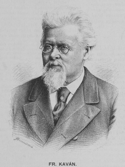 Portrait of František Kaván (1818 - 1896), Czech musician.